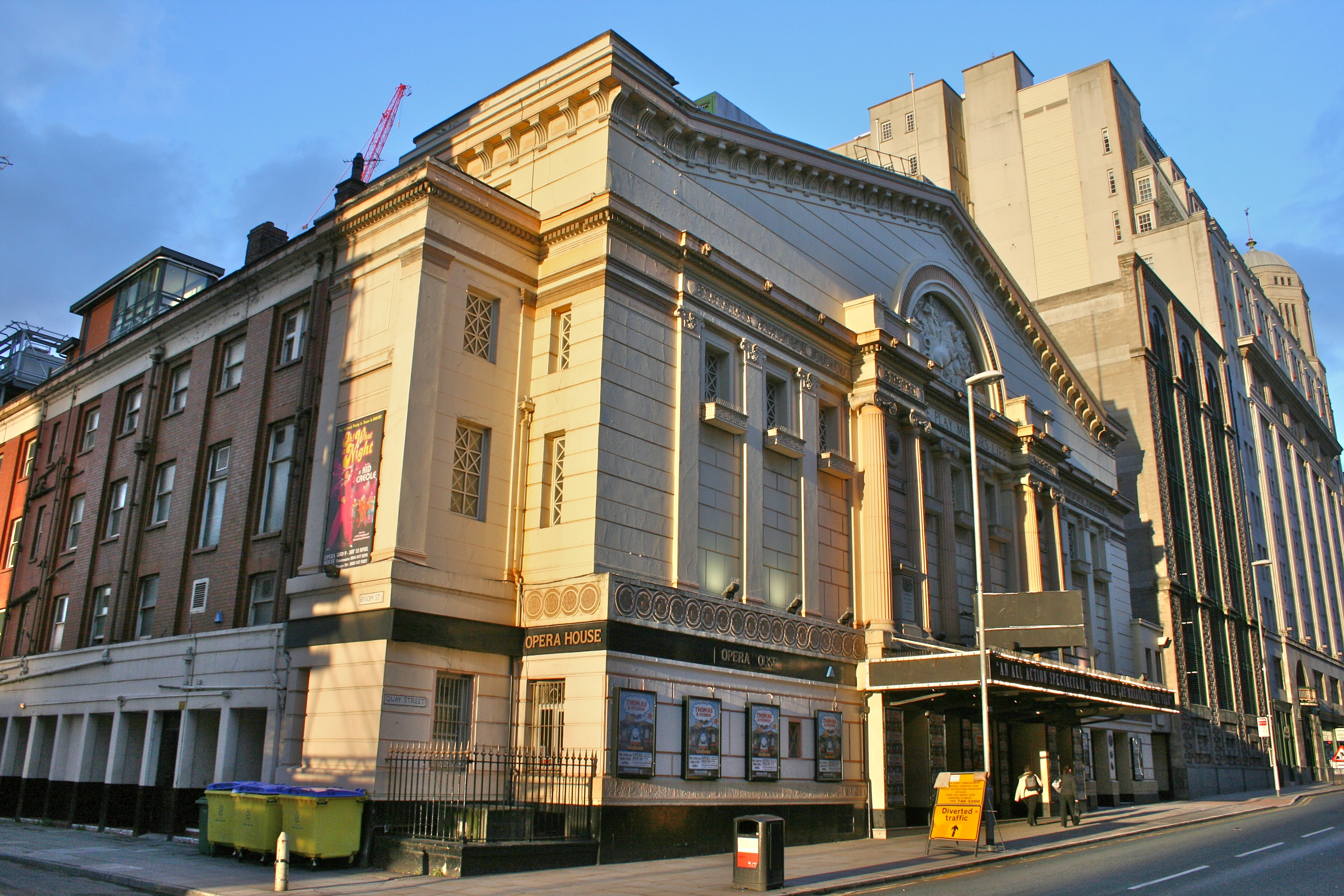 Manchester Opera House in Manchester, England.